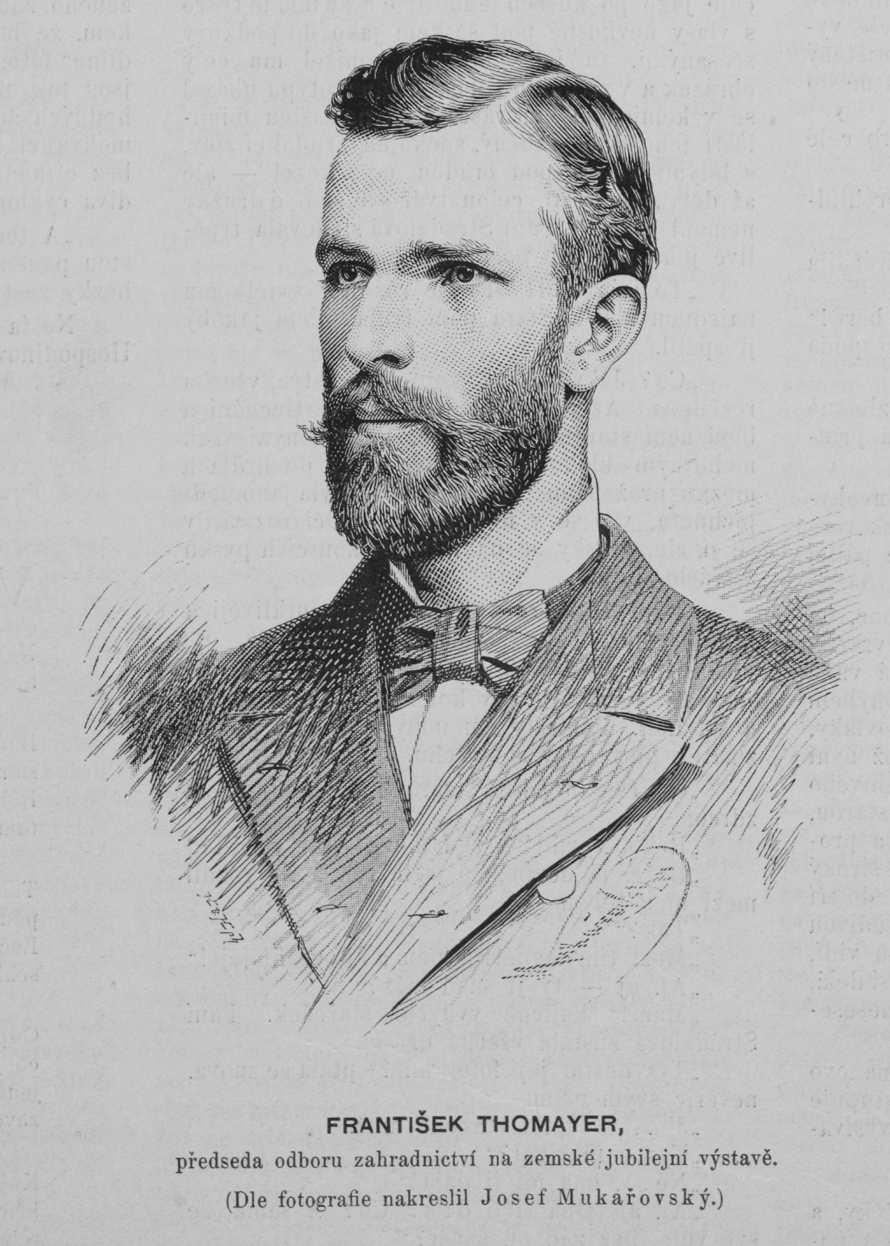 Portrait of František Josef Thomayer (1856 - 1938), Czech garden architect, chairman of gardening department on Anniversary Exhibition in Prague 1891.